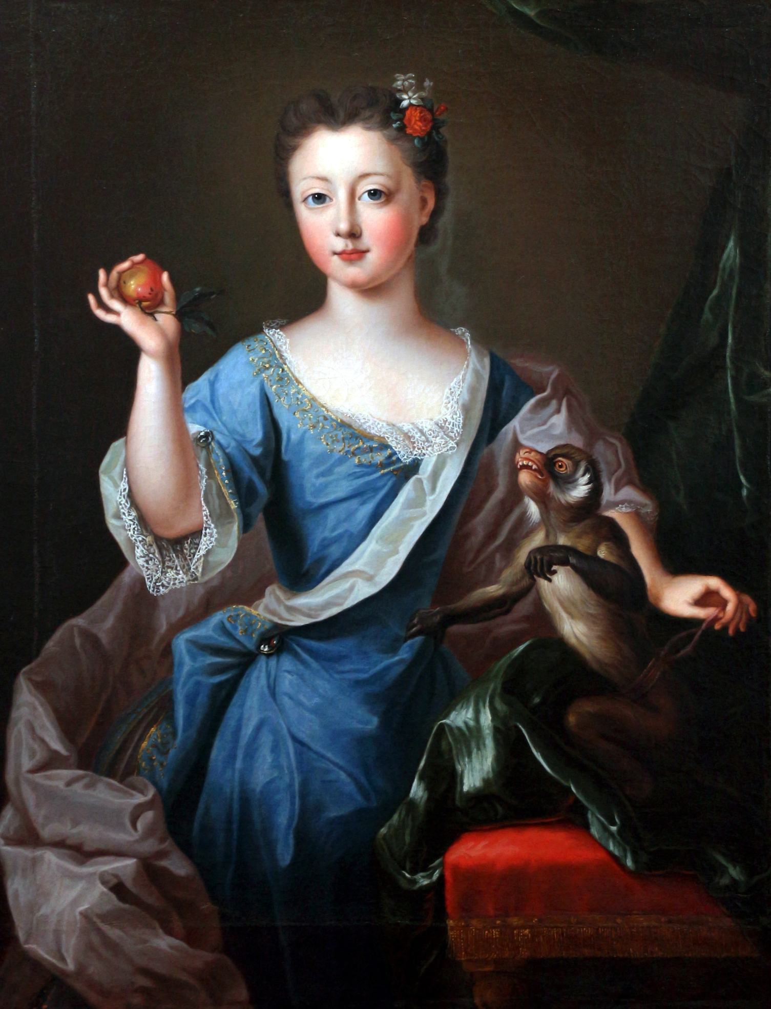 Anne Charlotte of Lorraine